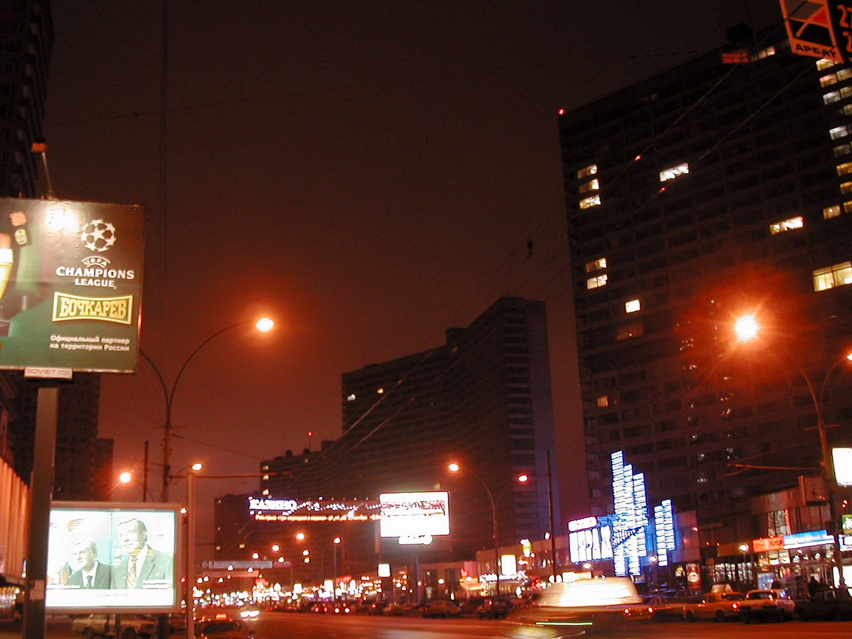 Novy Arbat street in Moscow